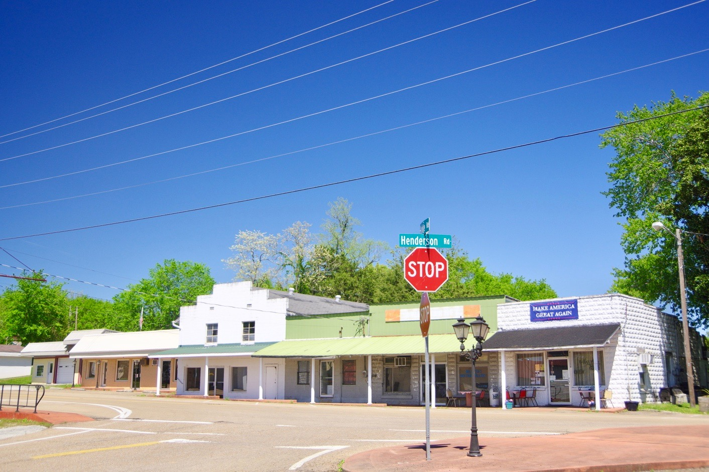 Businesses along State Route 104 in Sardis, Tennessee, United States.